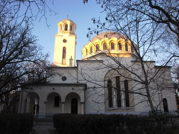 Plovdiv